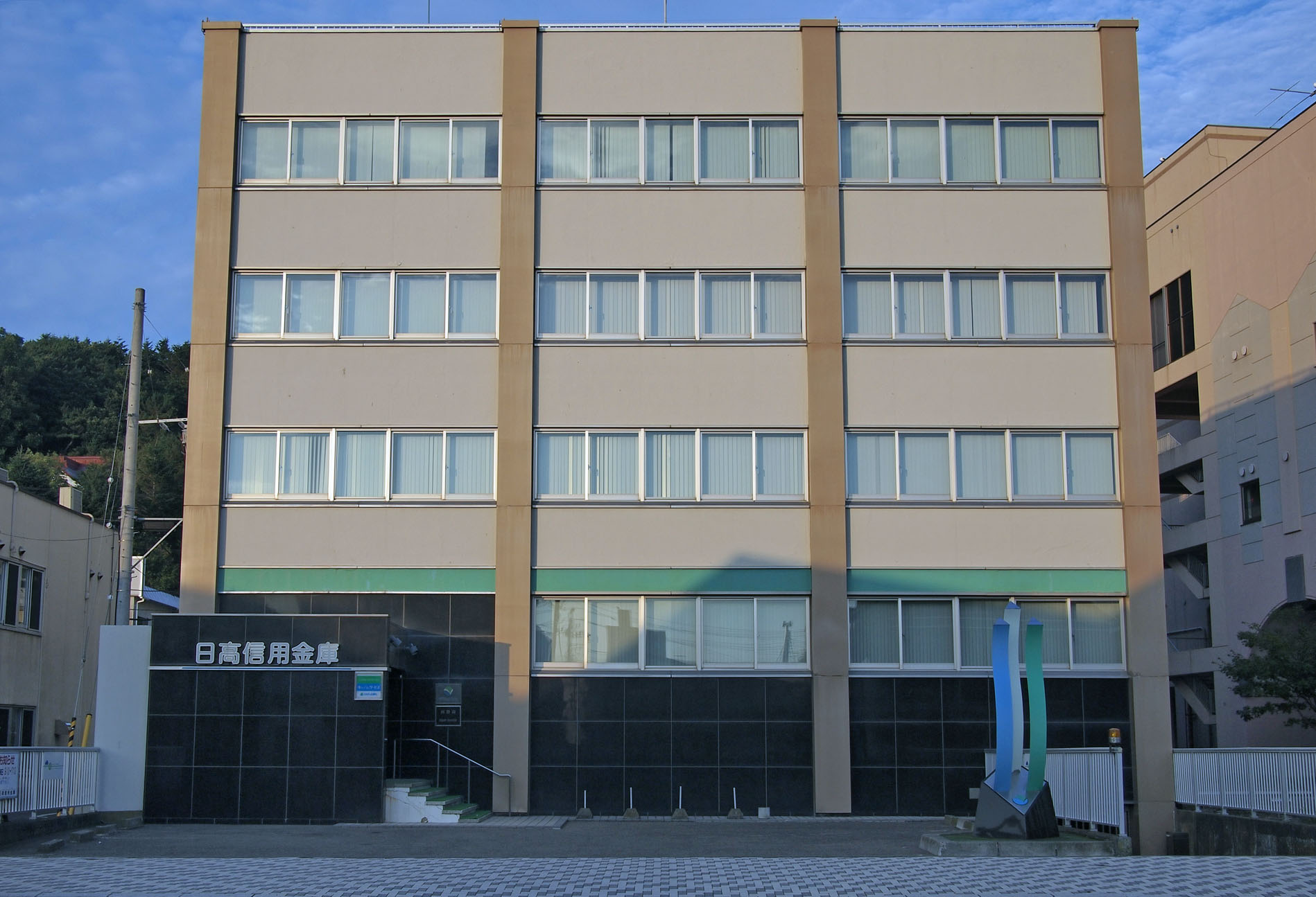 Hidaka Shinkin Bank, Urakawa, Hokkaido, Japan